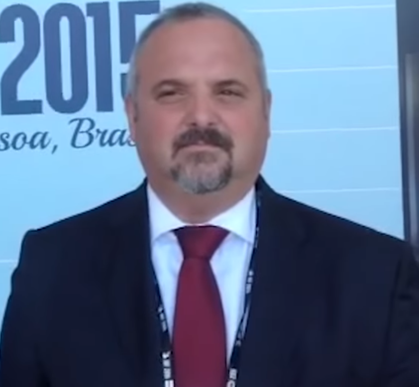 David Borrelli, co-president of the EFDD group